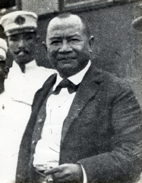 Baldomero Aguinaldo, elected Director of Finance at the Tejeros Convention and later appointed Secretary of War.